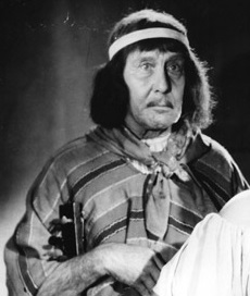 Juan Farías-actor argentino